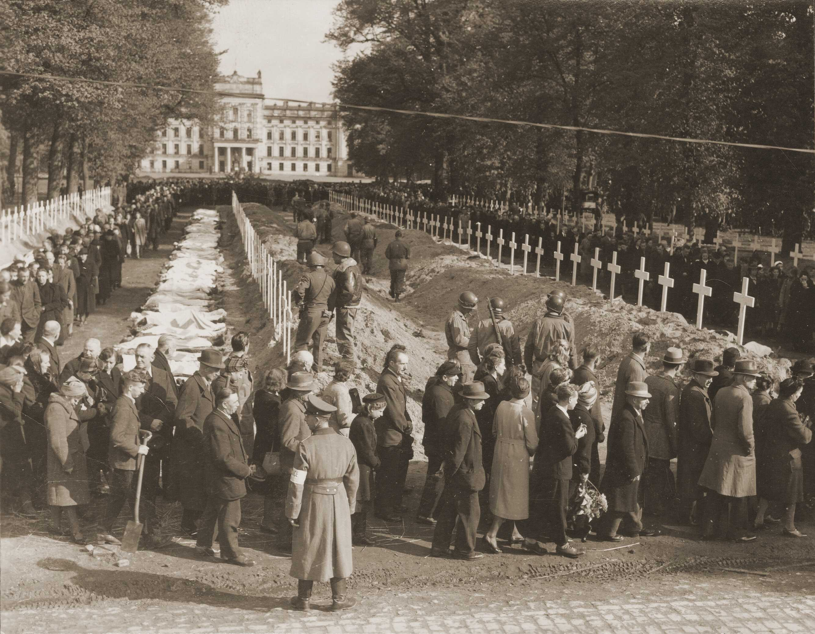 German civilians from Ludwigslust file past the corpses and graves of 200 prisoners from the nearby concentration camp of Woebbelin. The townspeople were forced by U.S. troops to bury the corpses on the palace grounds of the Archduke of Mecklenburg.